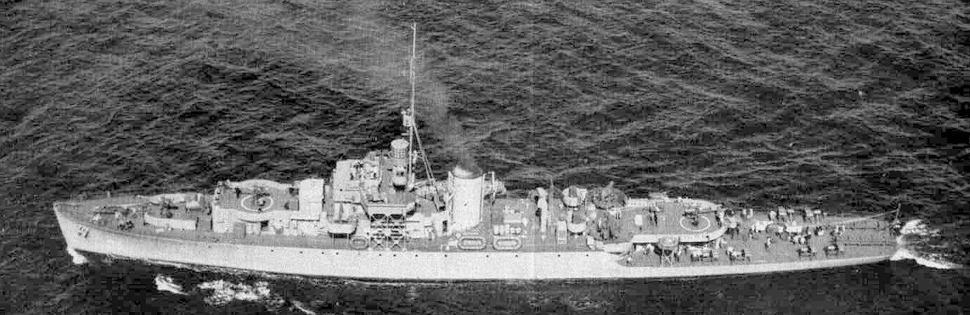 13 October 1943 U.S. Navy photo